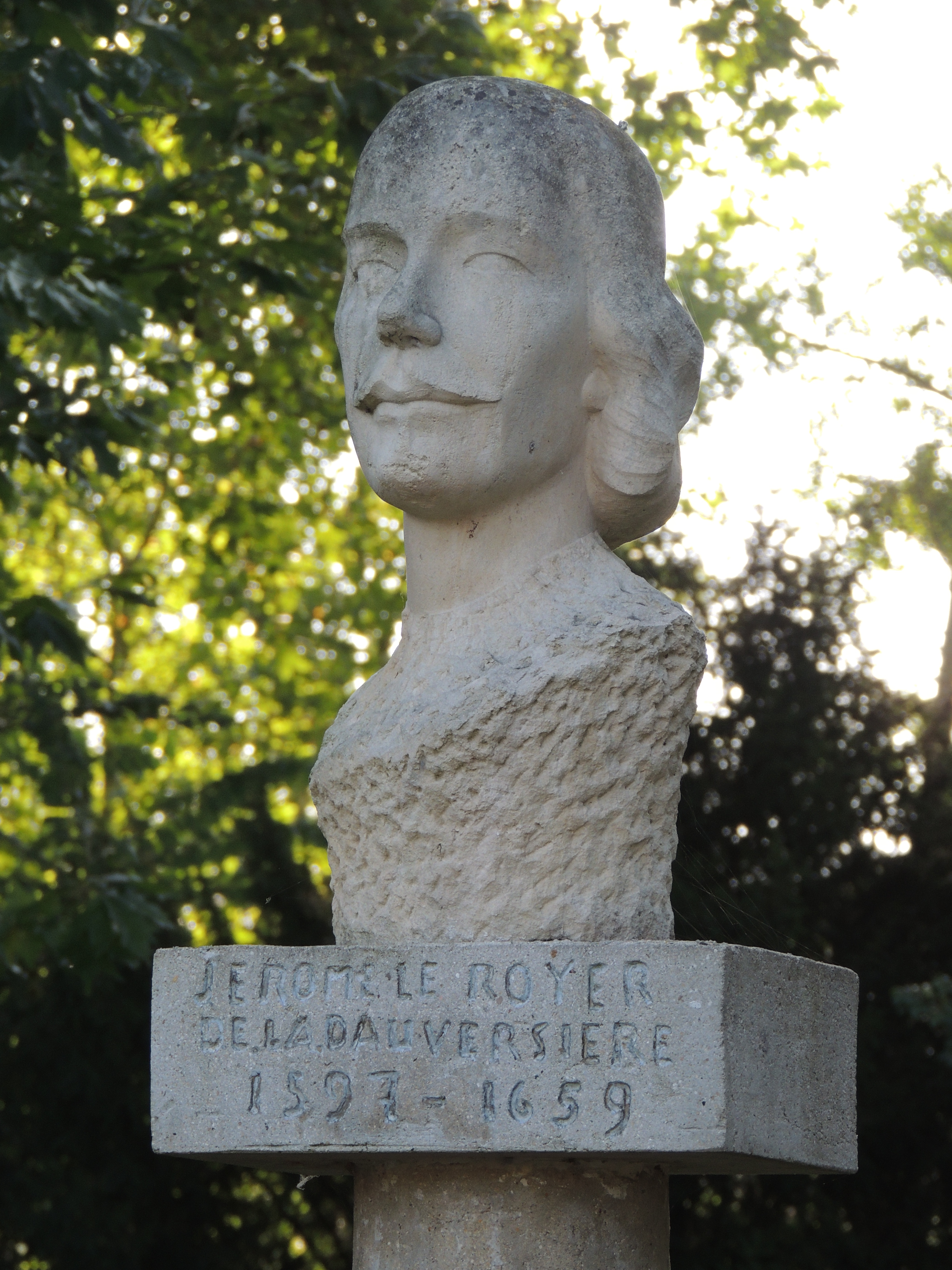 Le buste de Jérôme Le Royer de la Dauversière, à l'entrée du parc des Carmes de La Flèche